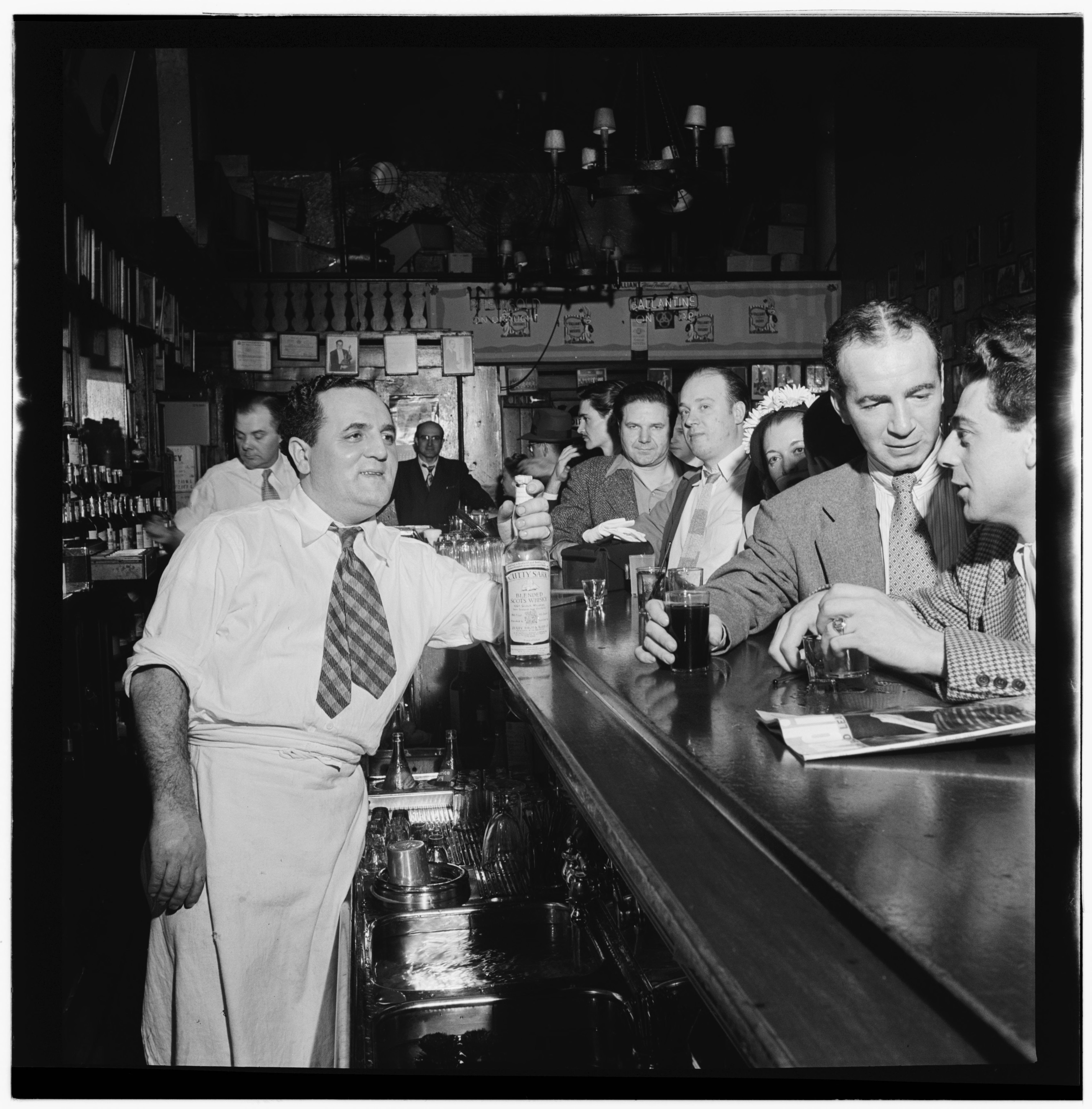 Gottlieb, William P., 1917-, photographer. [Charlie's Tavern, New York, N.Y., between 1946 and 1948] 1 negative : b&w ; 2 1/4 x 2 1/4 in. Notes: Gottlieb Collection Assignment No. 357 Purchase William P. Gottlieb Forms part of: William P. Gottlieb Collection (Library of Congress). Subjects: Bars (Drinking establishments)--1940-1950. Charlie's Tavern Format: Portrait photographs--1940-1950. Group portraits--1940-1950. Film negatives--1940-1950. Rights Info: Mr. Gottlieb has dedicated these works to the public domain, but rights of privacy and publicity may apply. Repository: (negative) Library of Congress, Prints & Photographs Division, Washington D.C. 20540 USA, Part Of: William P. Gottlieb Collection (DLC) 99-401005 General information about the Gottlieb Collection is available at Persistent URL: Call Number: LC-GLB23- 1033 This work is from the William P. Gottlieb collection at the Library of Congress. Rights and restrictions.In accordance with the wishes of William Gottlieb, the photographs in this collection entered into the public domain on February 16, 2010.